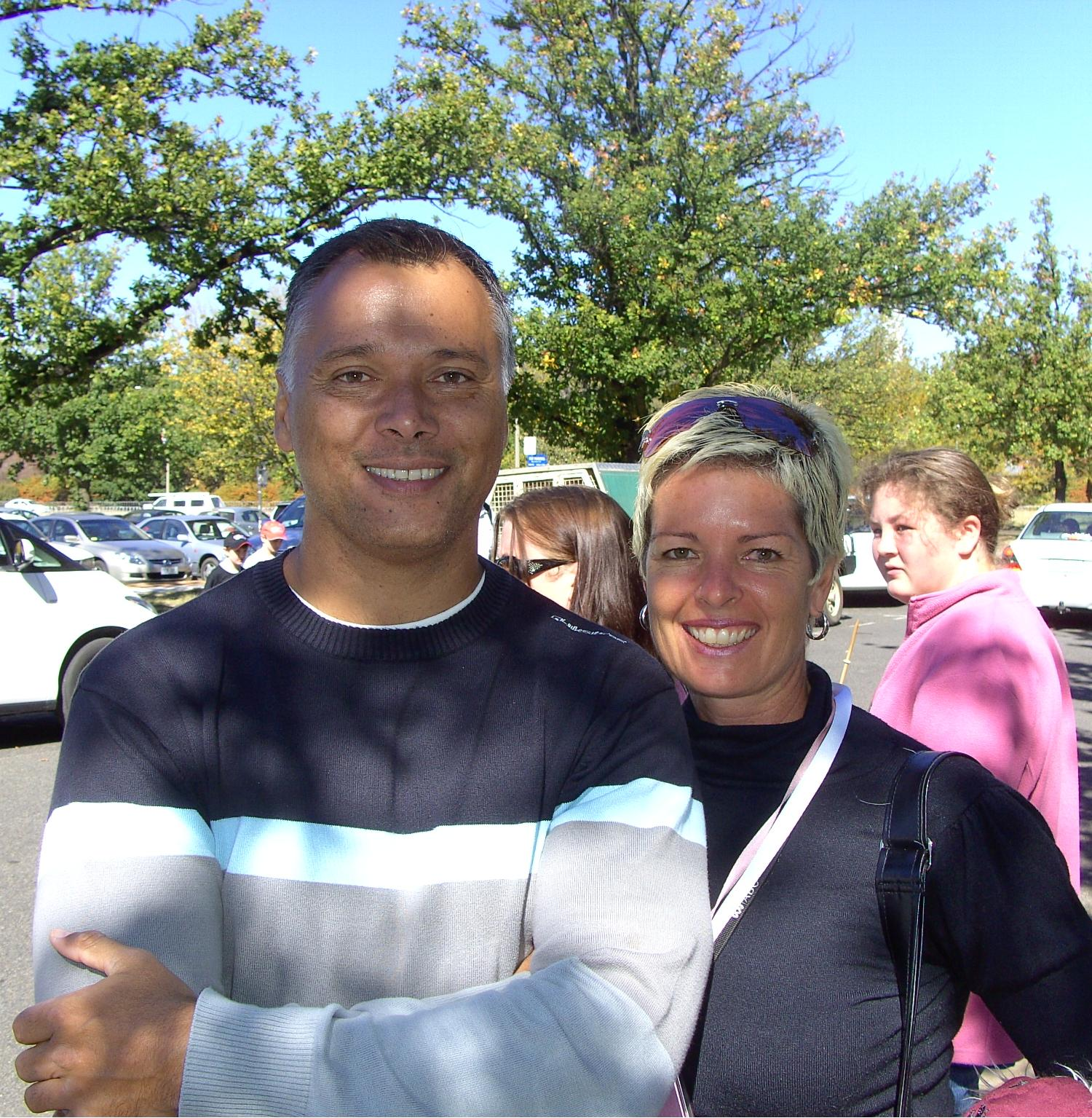 Stan Grant and Tracey Holmes, at the 2008 Summer Olympics torch relay events in Canberra, Australian Capital Territory.